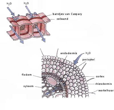 Cross-section of a plant root